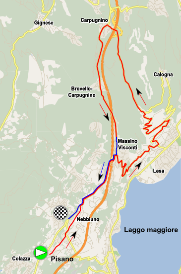 Map of the stage 8 of Giro Donne 2015. Background from OpenStreetMap.